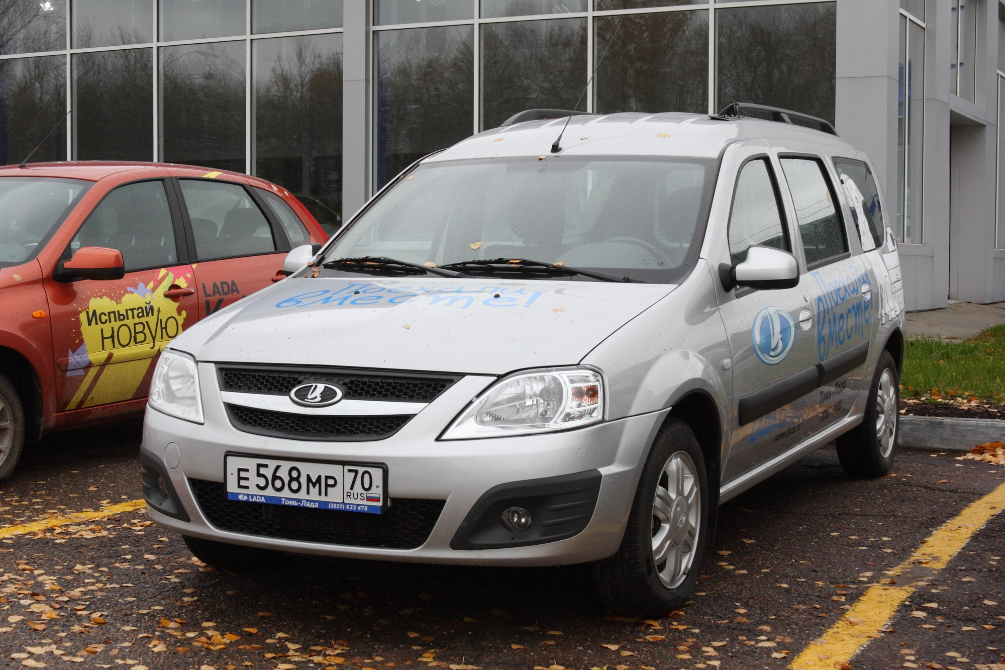 Lada Largus in Tomsk, Russia